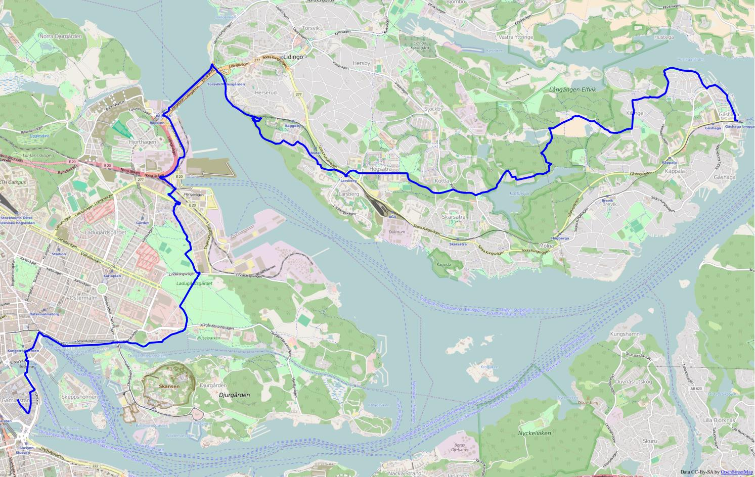 The Södra Lindingöstråket hiking trail in Stockholm, Sweden.